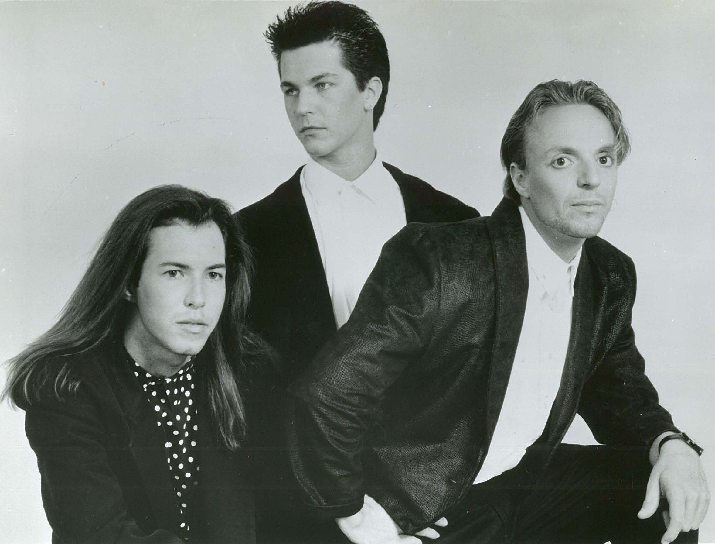 L-R Martin Davis,Tim Gavin,Christopher Phipps circa 1989